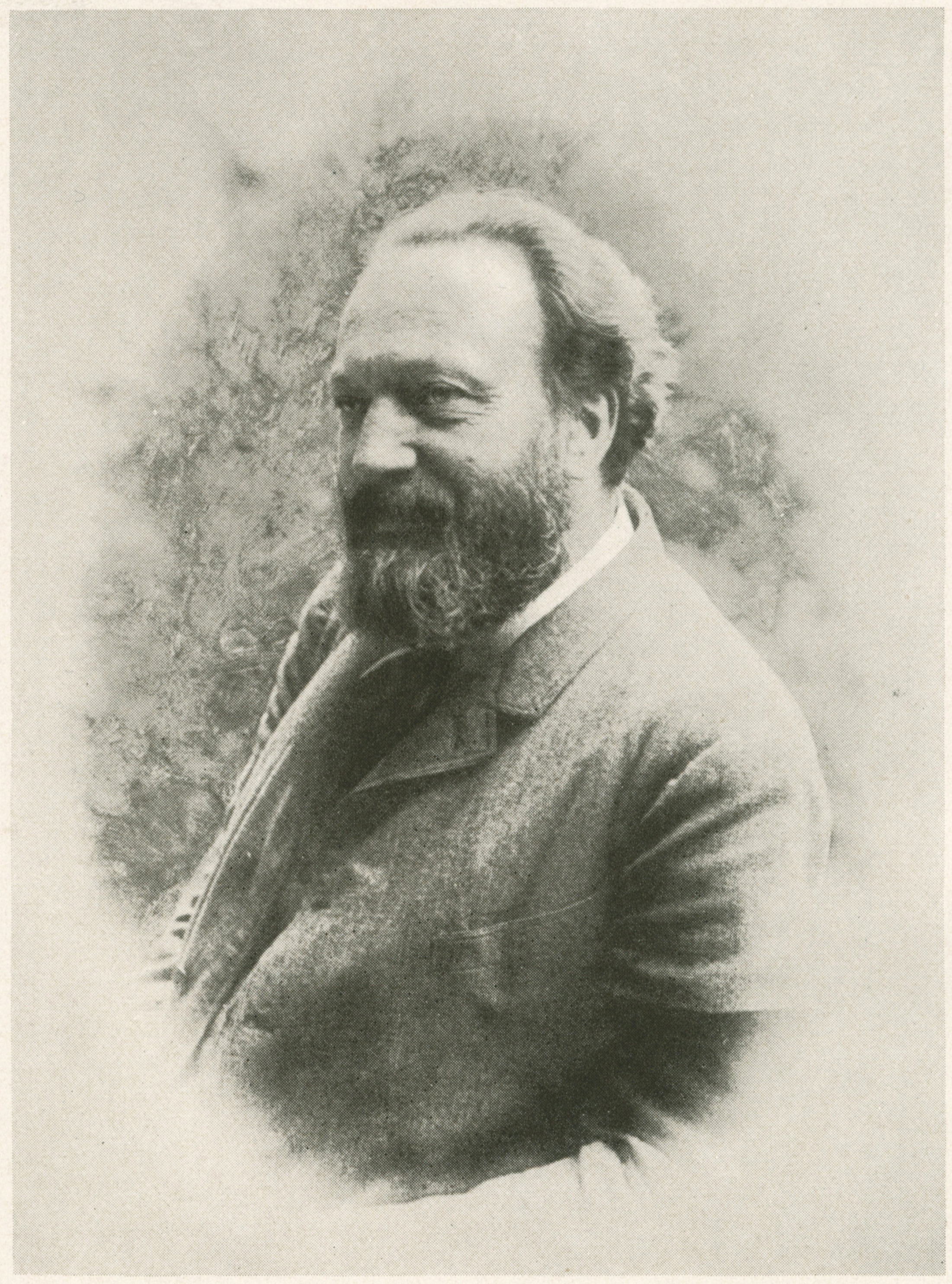 Portrait of Richard Avenarius (1843–1896)